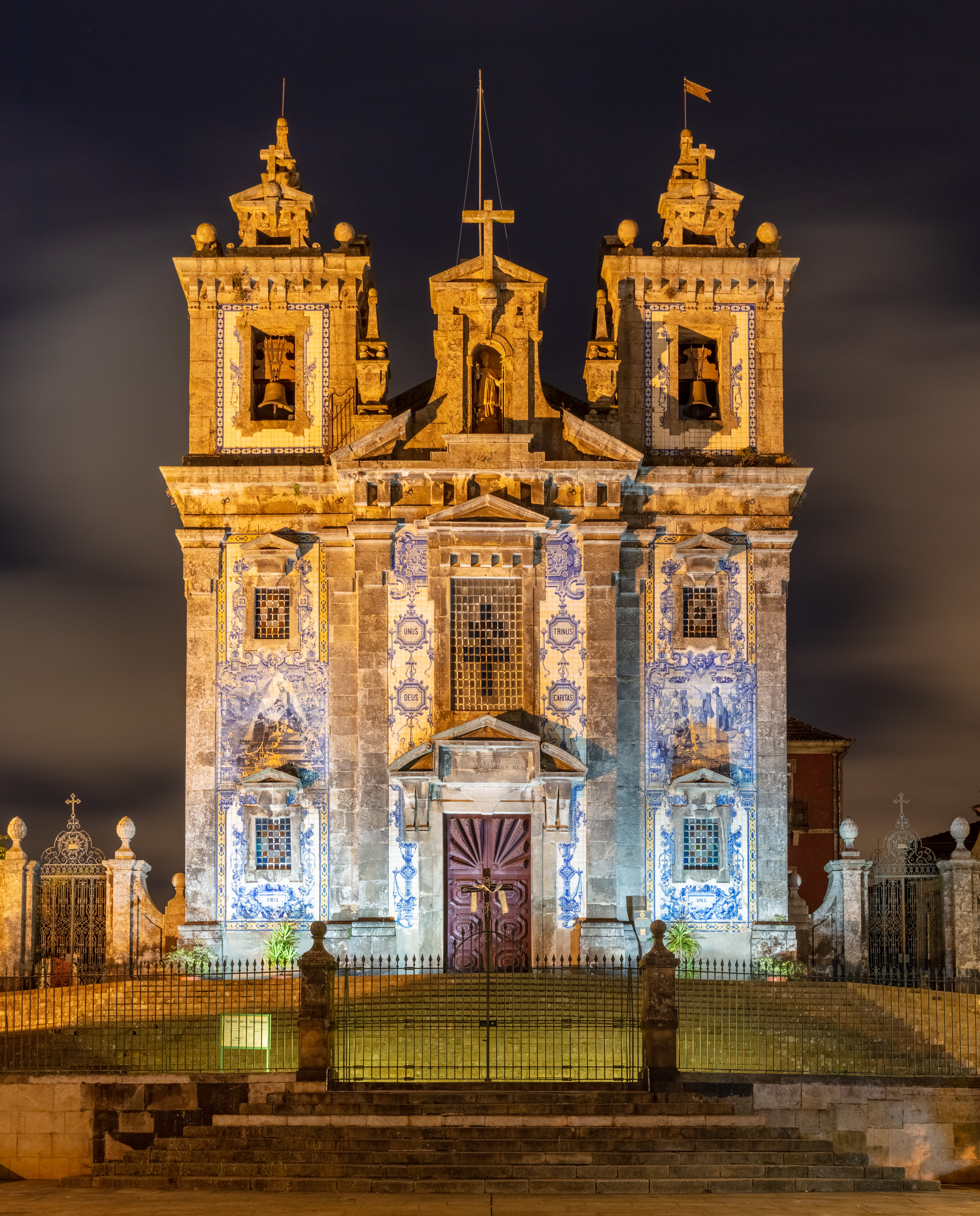 Night view of the church of Saint Ildefonso, Porto, Portugal. It was completed in 1739 and built in a proto-Baroque style with a façade of 1932 azulejo tilework. The church is named in honour of the Visigoth, Ildephonsus of Toledo, bishop of Toledo from 657 until his death in 667.